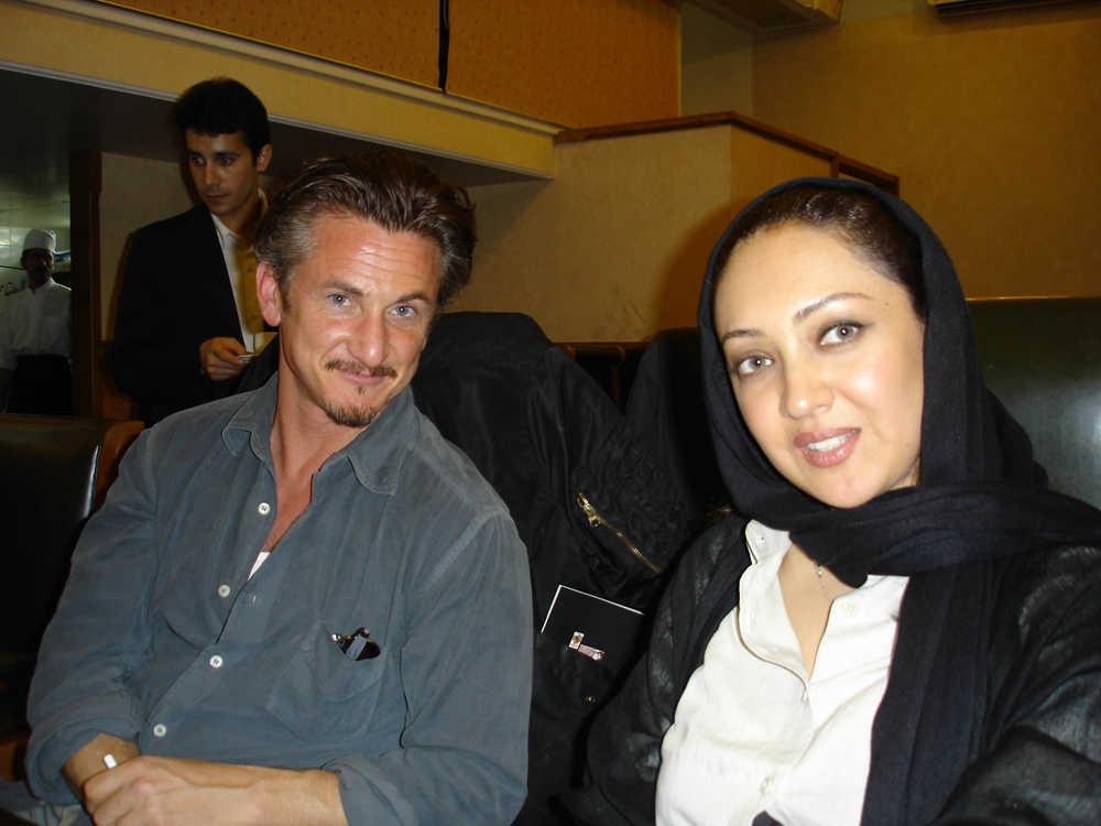 Niki Karimi and Sean Penn on his visit to Iran